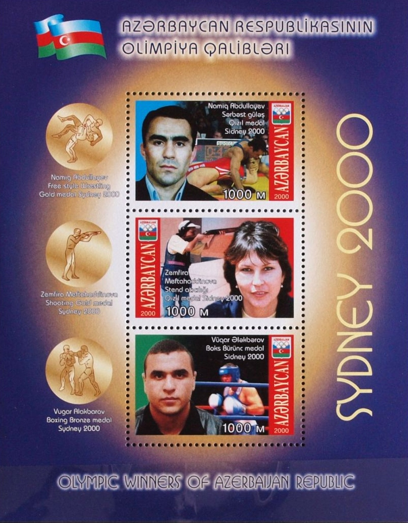 Stamp of Azerbaijan